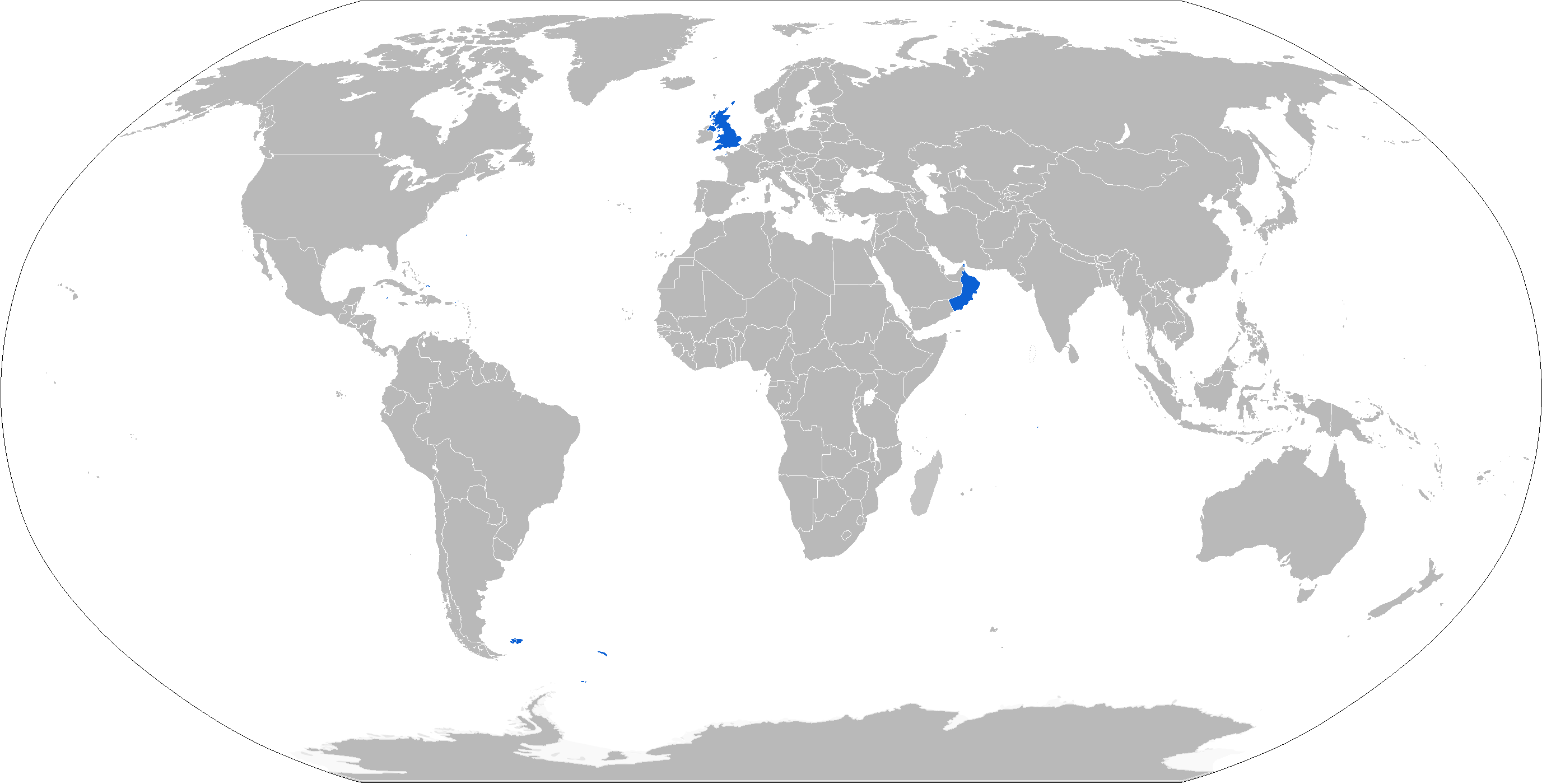 Map with L30 operators in blue